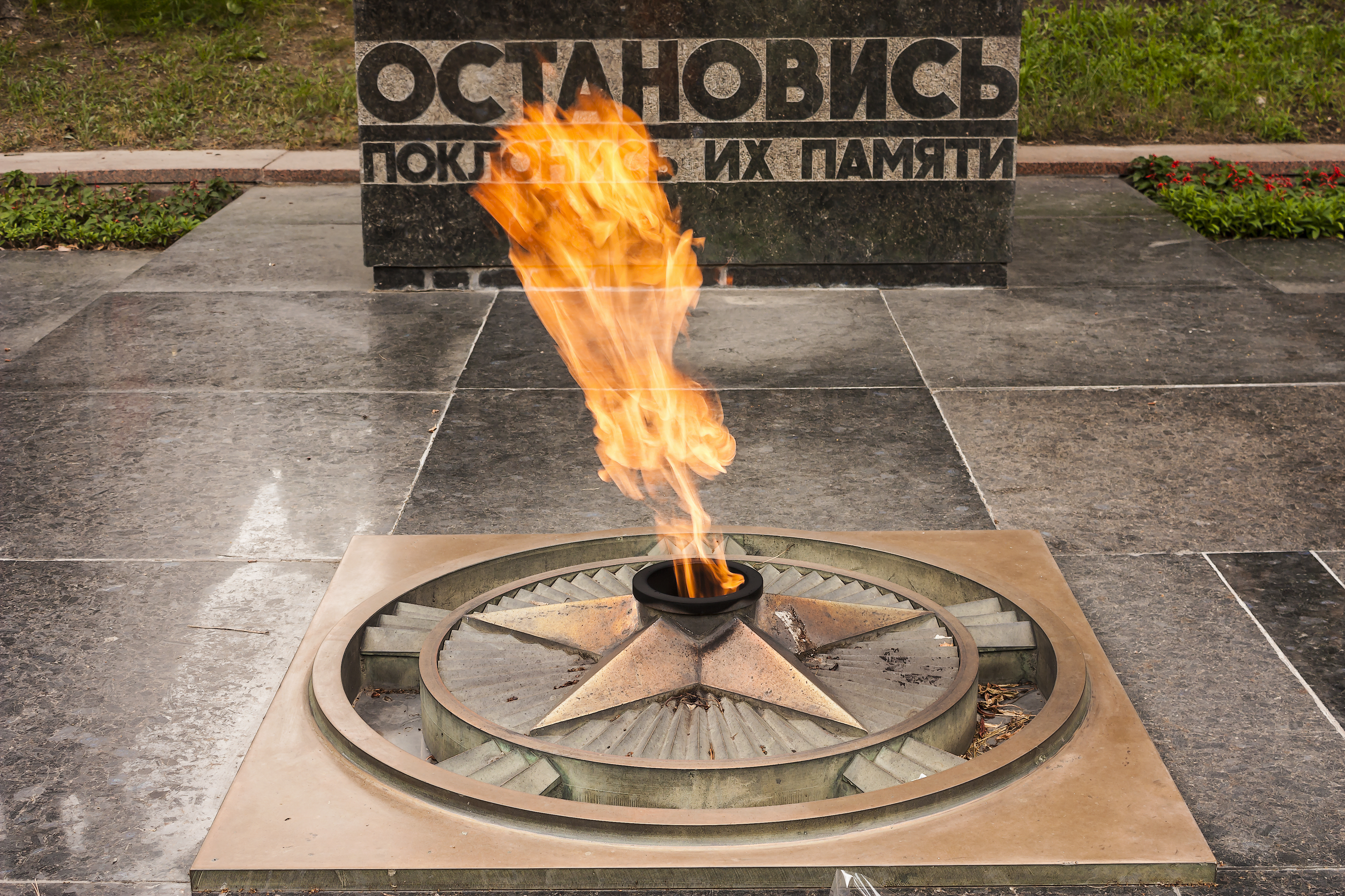 The monument to the Fire of eternal glory who died for the Soviet power: Lermontova street, Lenin square, Pyatigorsk, Stavropol Krai